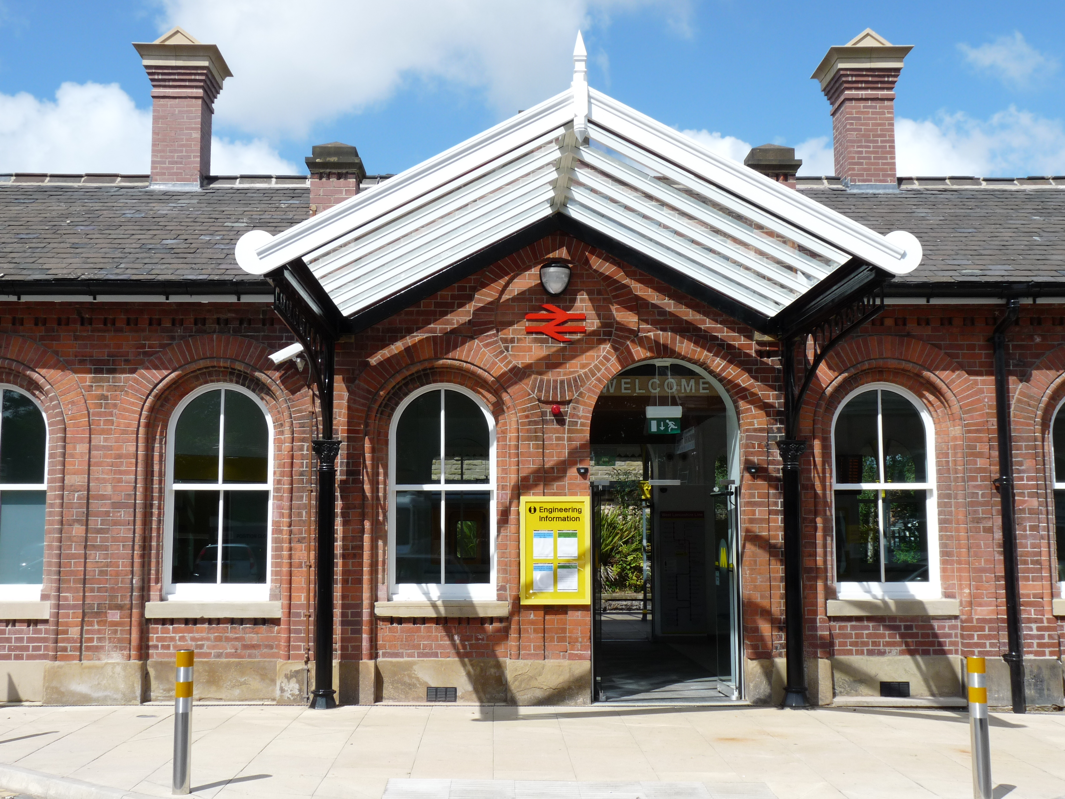 The frontage of the recently refurbished ticket hall at Ormskirk railway station.